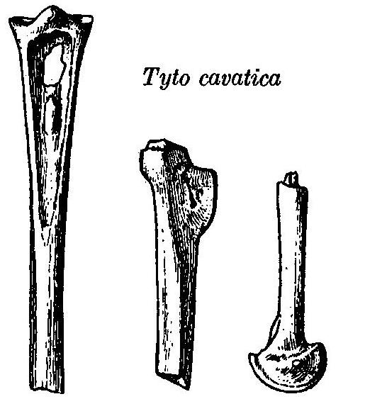 Tibio tarsus and tarso-metatarsus of Tyto cavatica. From Wetmore on Cave Birds of Porto Rico (Bulletin of the American Museum of Natural History) Vol. 46, Article 4, 1922.